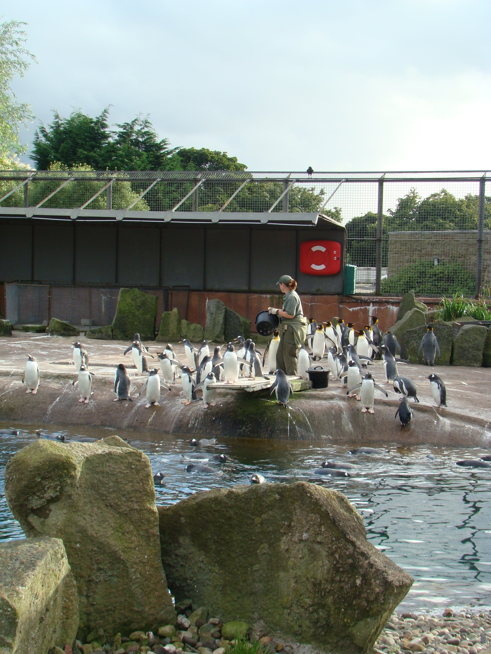 Feeding of pengouins in Edinburgh Zoo.